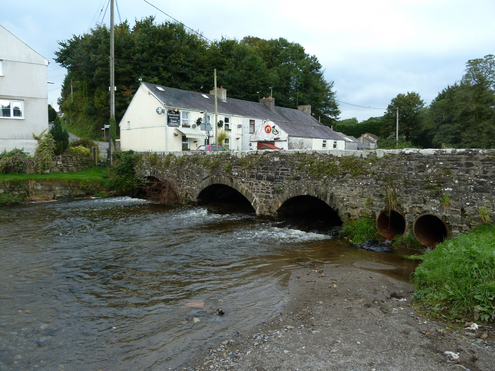 Bridge over the Afon Dewi Fawr river that runs through the centre of Meidrim with the Fountain Inn in the background.